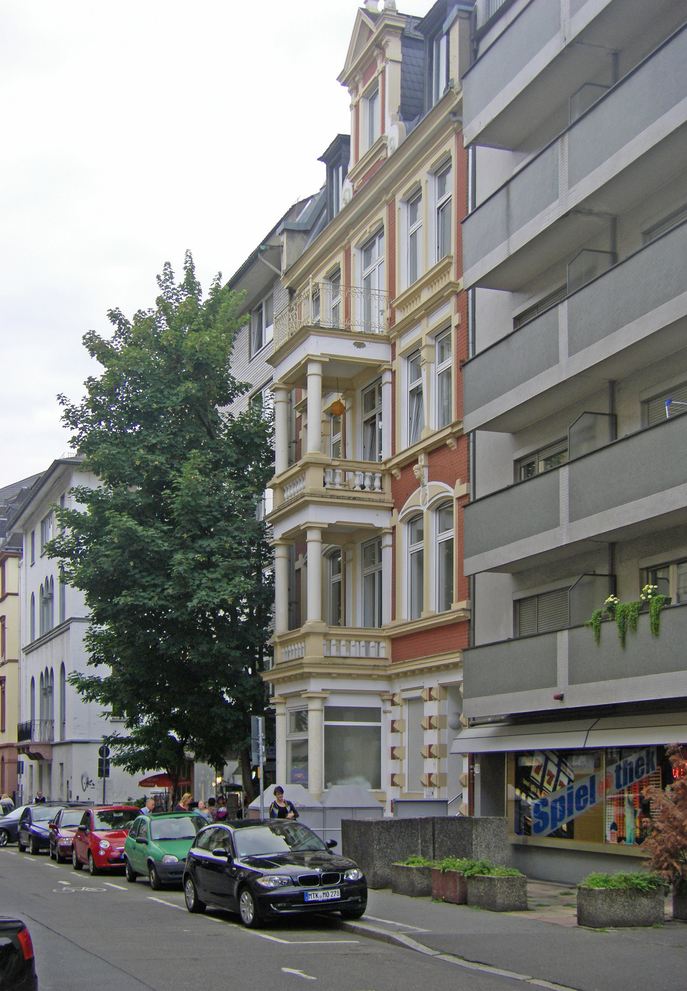 The building in the middle of the picture is a historical monument in Frankfurt am Main and the only one in the long street called Sandweg